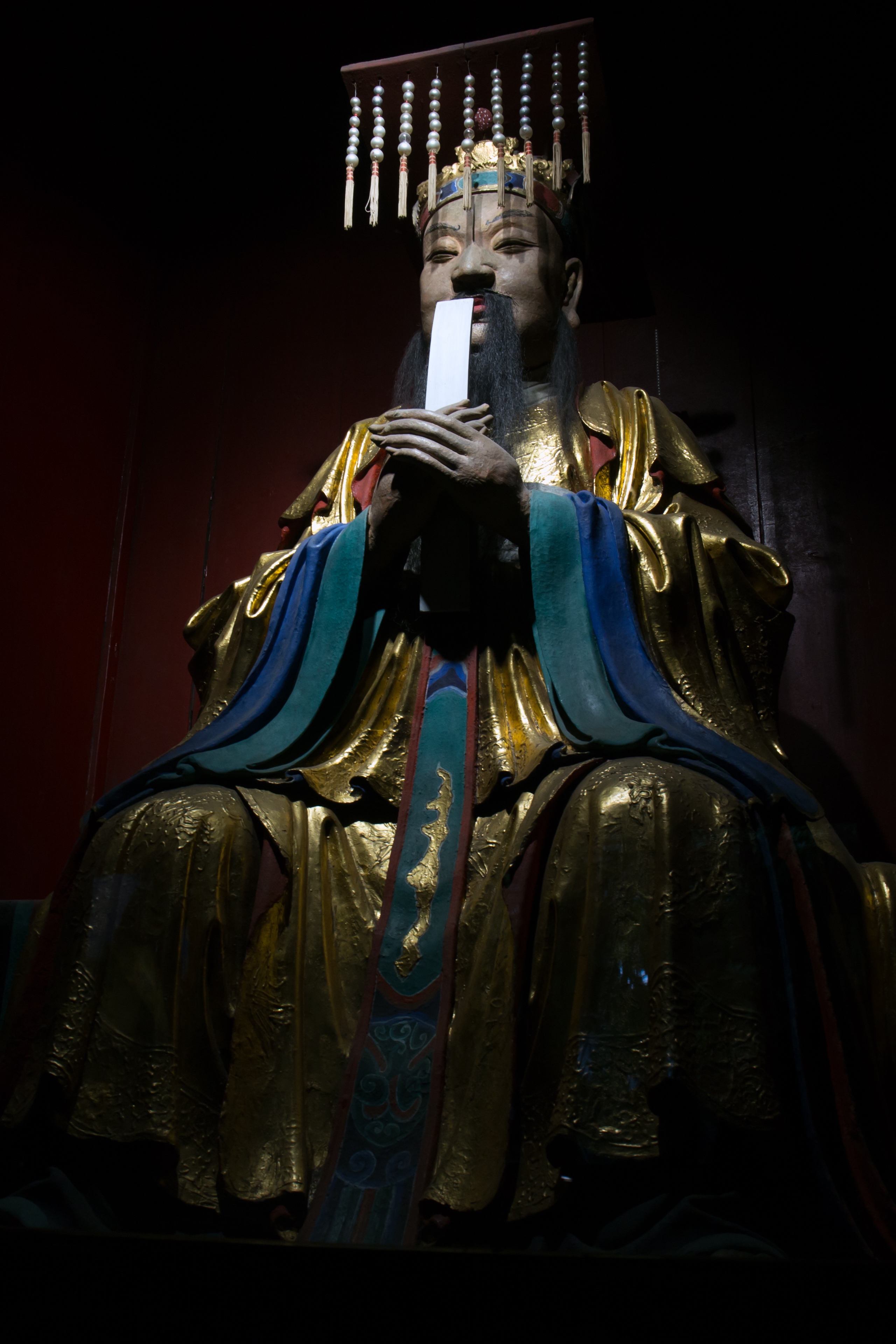 Guan Yu (關羽)